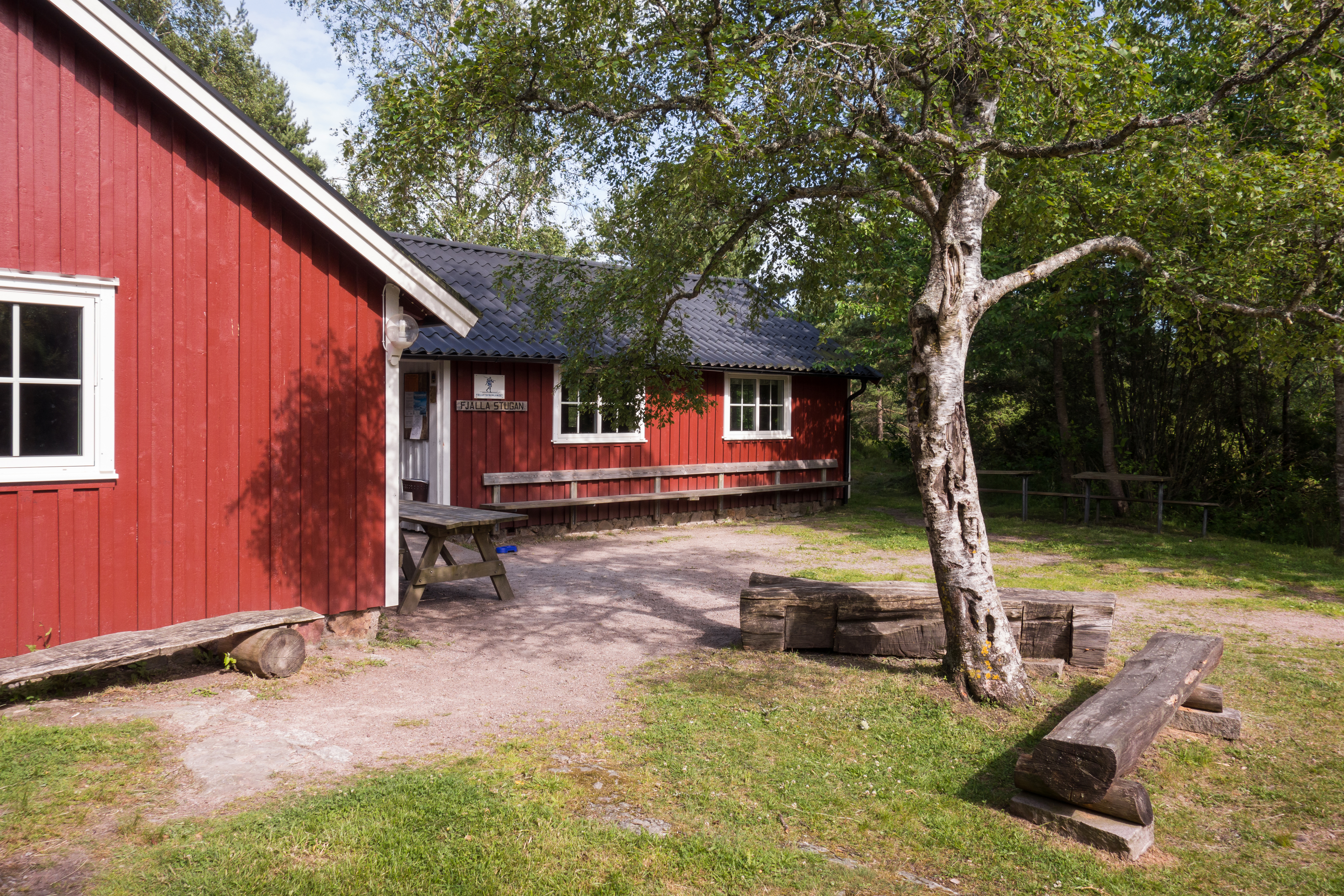 Front area at Fjällastugan in Gullmarsskogen nature reserve, Lysekil Municipality, Sweden.